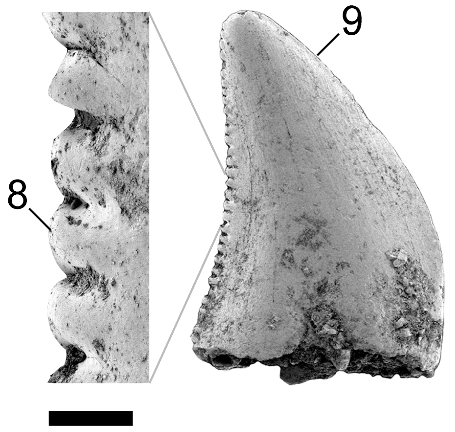 Tooth of cf. Richardoestesia gilmorei with close up of denticles.